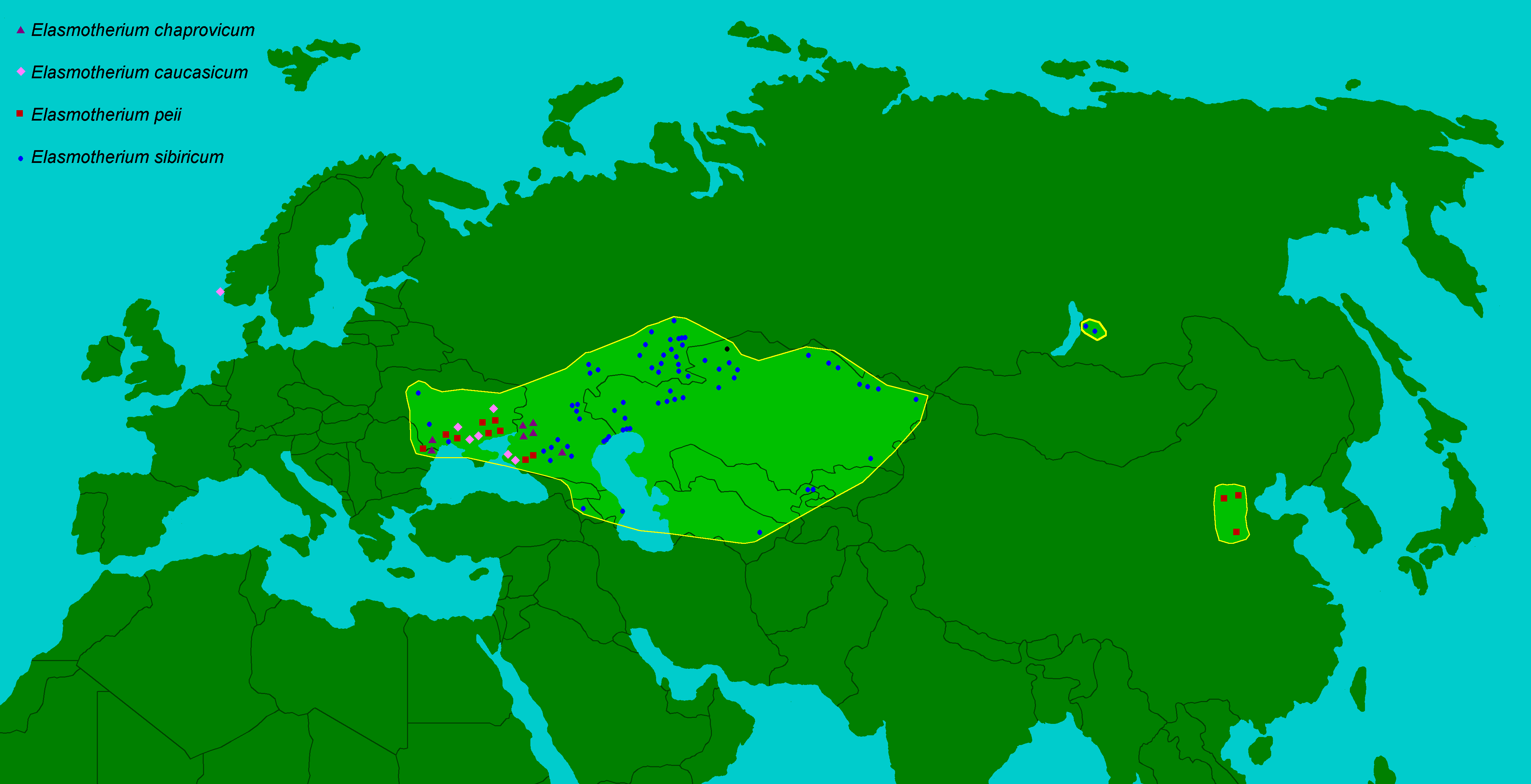 Distribution of the 4 species of Elasmotherium according to Anna K. Schvyreva: On the importance of the representatives of the genus Elasmotherium (Rhinocerotidae, Mammalia) in the biochronology of the Pleistocene of Eastern Europe. Quaternary International 379, 2015, pp. 128–134 and Baldyrgan S. Kožamkulova: Elasmotherium sibiricum und sein Verbreitungsgebiet auf dem Territorium der UdSSR. Quartärpaläontologie 4, 1981, pp. 85–91